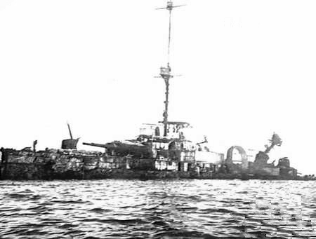 Wreck of the Italian coast defence ship San Giorgio at Tobruk, Libya, in 1941.